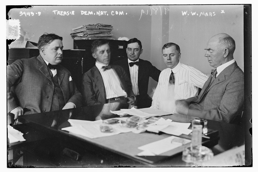 Wilbur W. Marsh (1862-1929), Treasurer of the Democratic National Committee in 1916